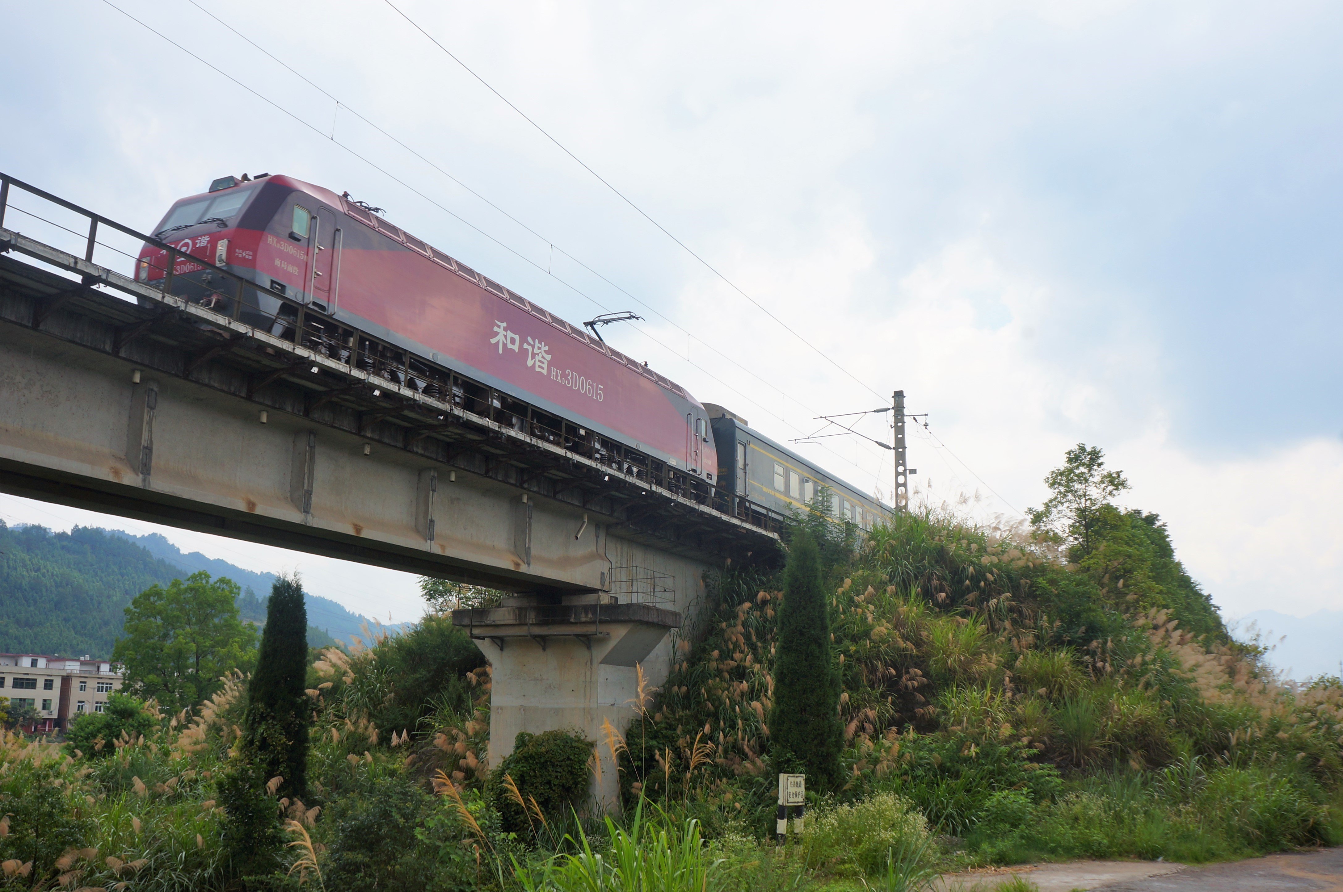 Taken on the ramp of S50, actually this train follows K2367 since Hengyang